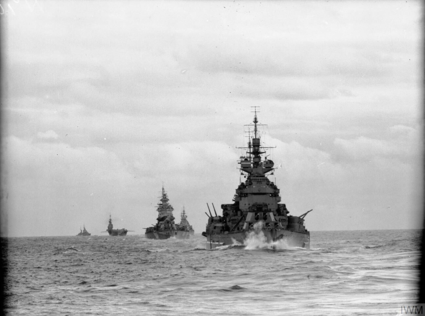 The Royal Navy during the Second World War HMS DUKE OF YORK, HMS NELSON, HMS RENOWN, HMS FORMIDABLE and HMS ARGONAUT in line ahead, ships of the Force H during the occupation of French North Africa.